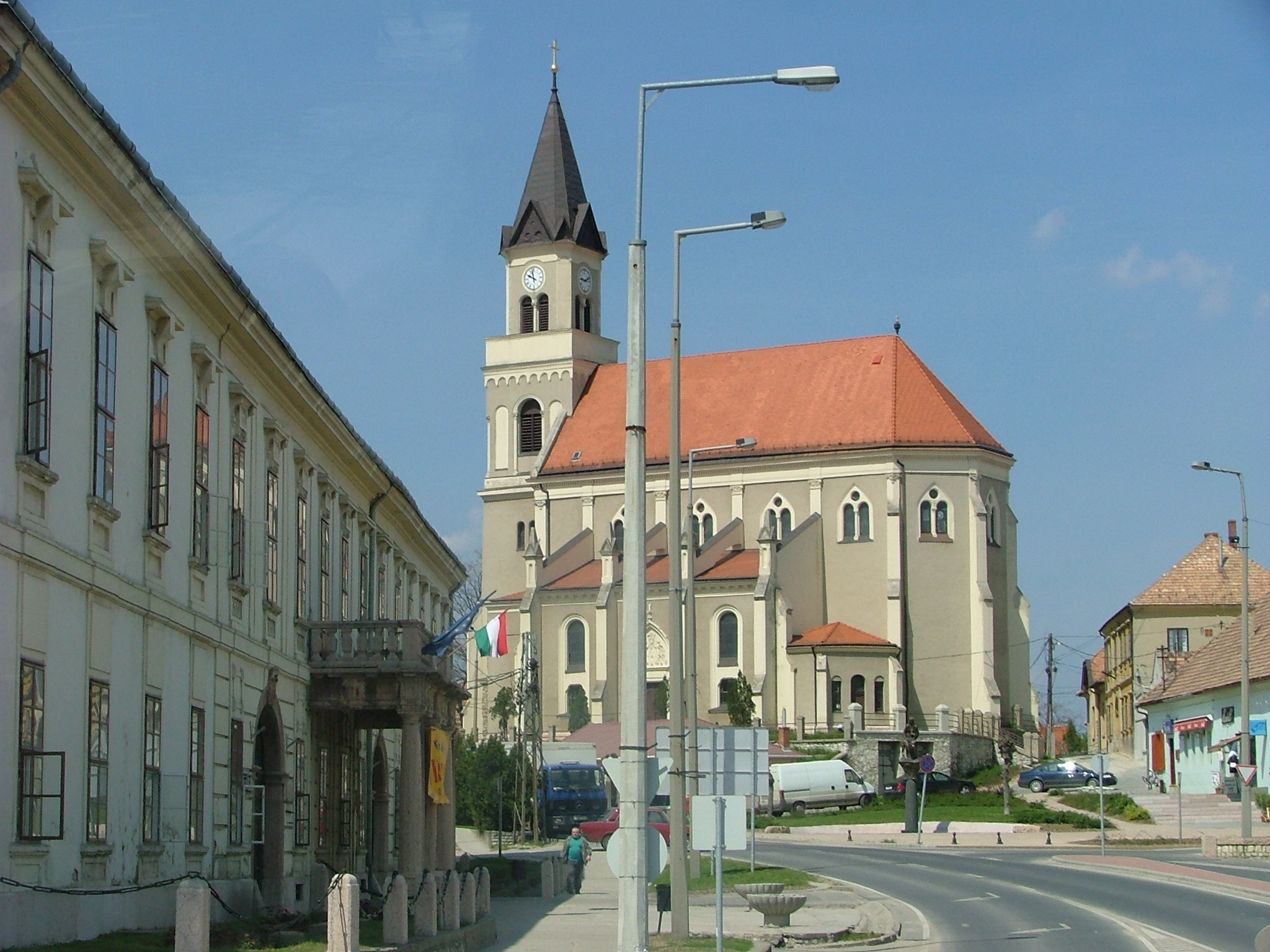 Holy Cross Lesser Church in Mór This is a photo of a monument in Hungary. Identifier: 3715